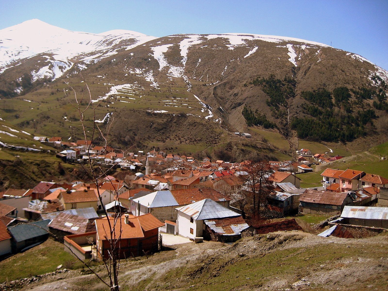 Photos from Arianit Dobroshi for Wikimedia Commons. Original Filename "arianit/Brod/image147.jpg"